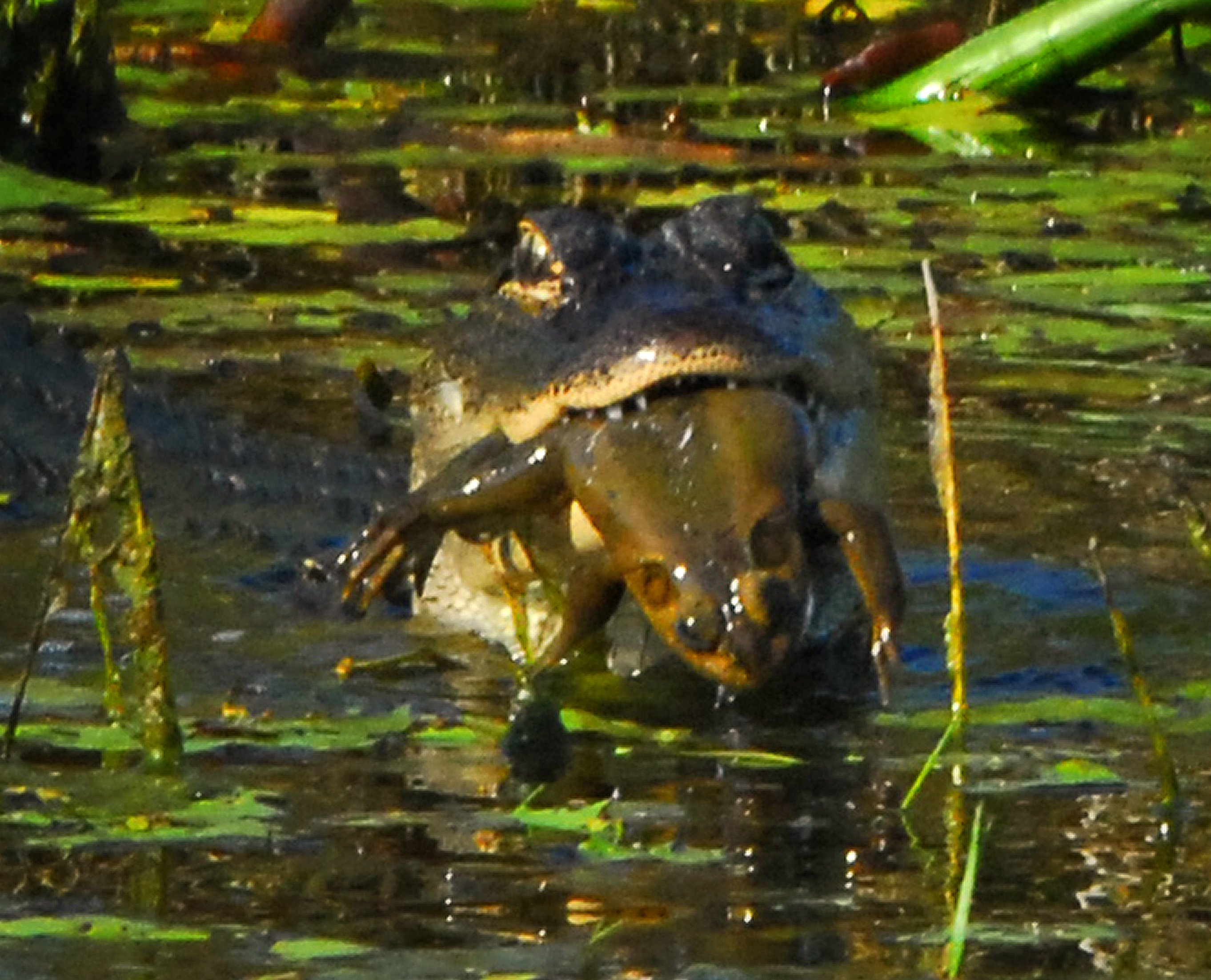 Alligator with bullfrog at Lake Woodruff